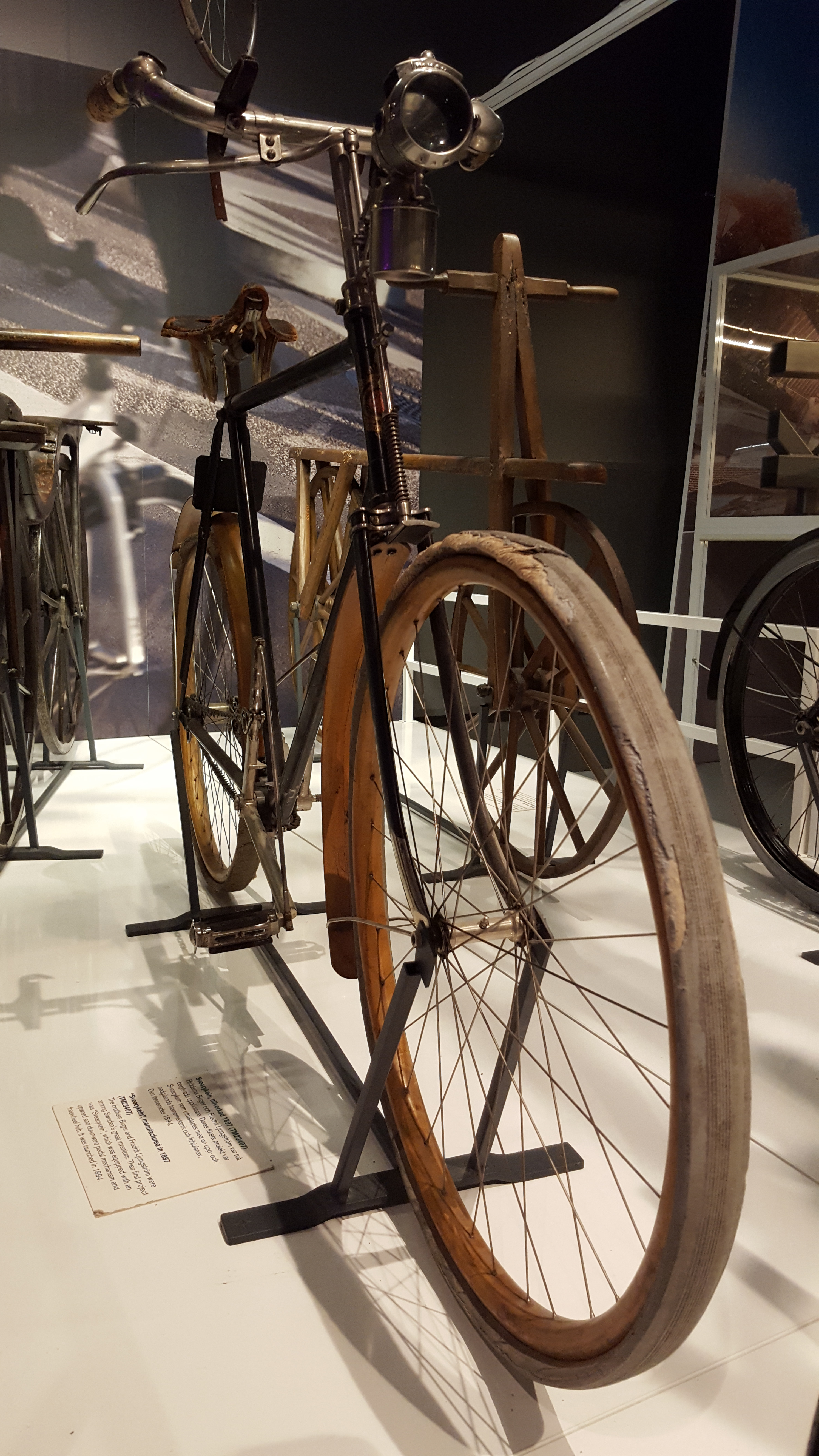 Svea Velocipede by Fredrik Ljungström and Birger Ljungström, exhibitioned at the Swedish National Museum of Science and Technology in Stockholm, Sweden.